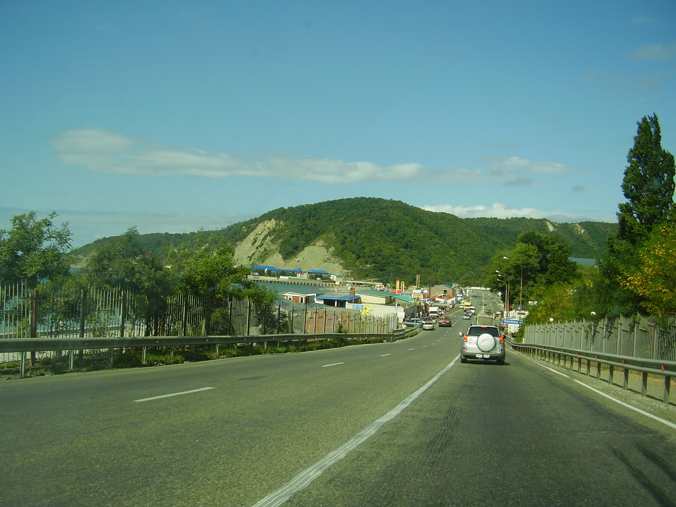 Lermontovo, Krasnodar region. 2009